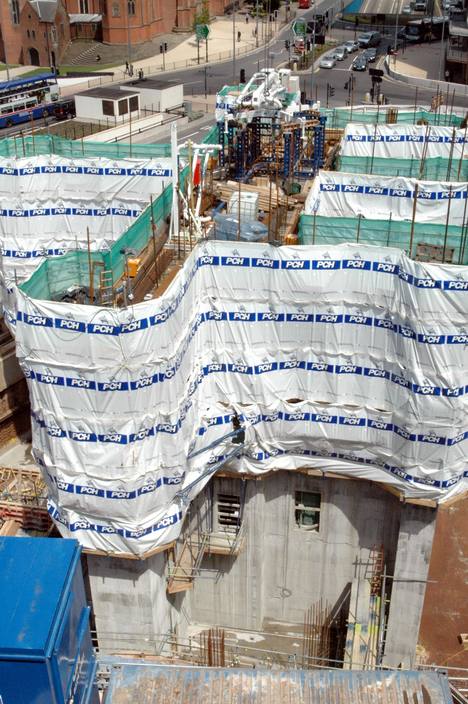 This is the concrete core to the residential tower on Phase 3 of the Snowhill development in Birmingham, England. The blue structure on top is the slipform structure.